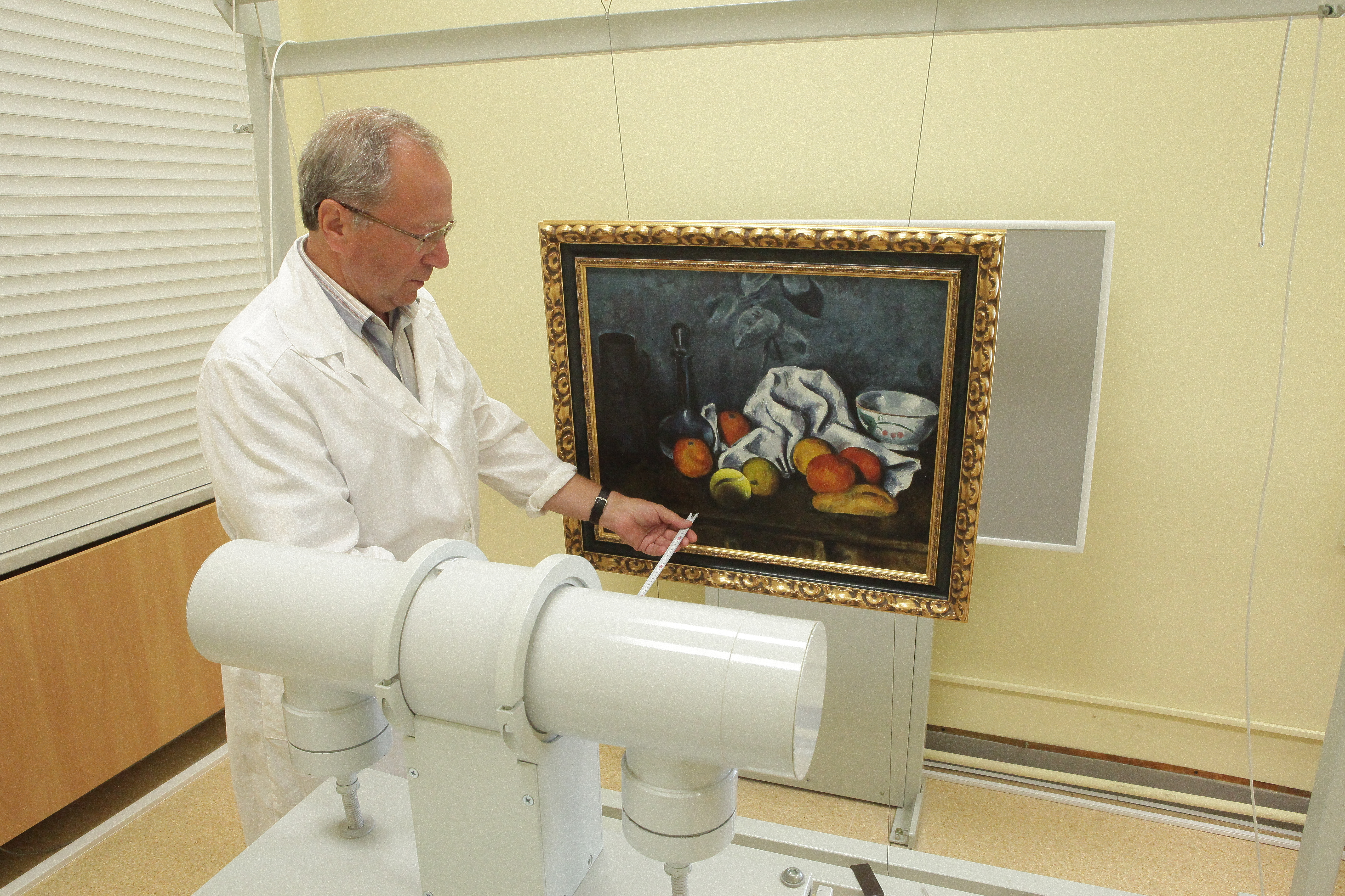 Art Radiography System for Paintings